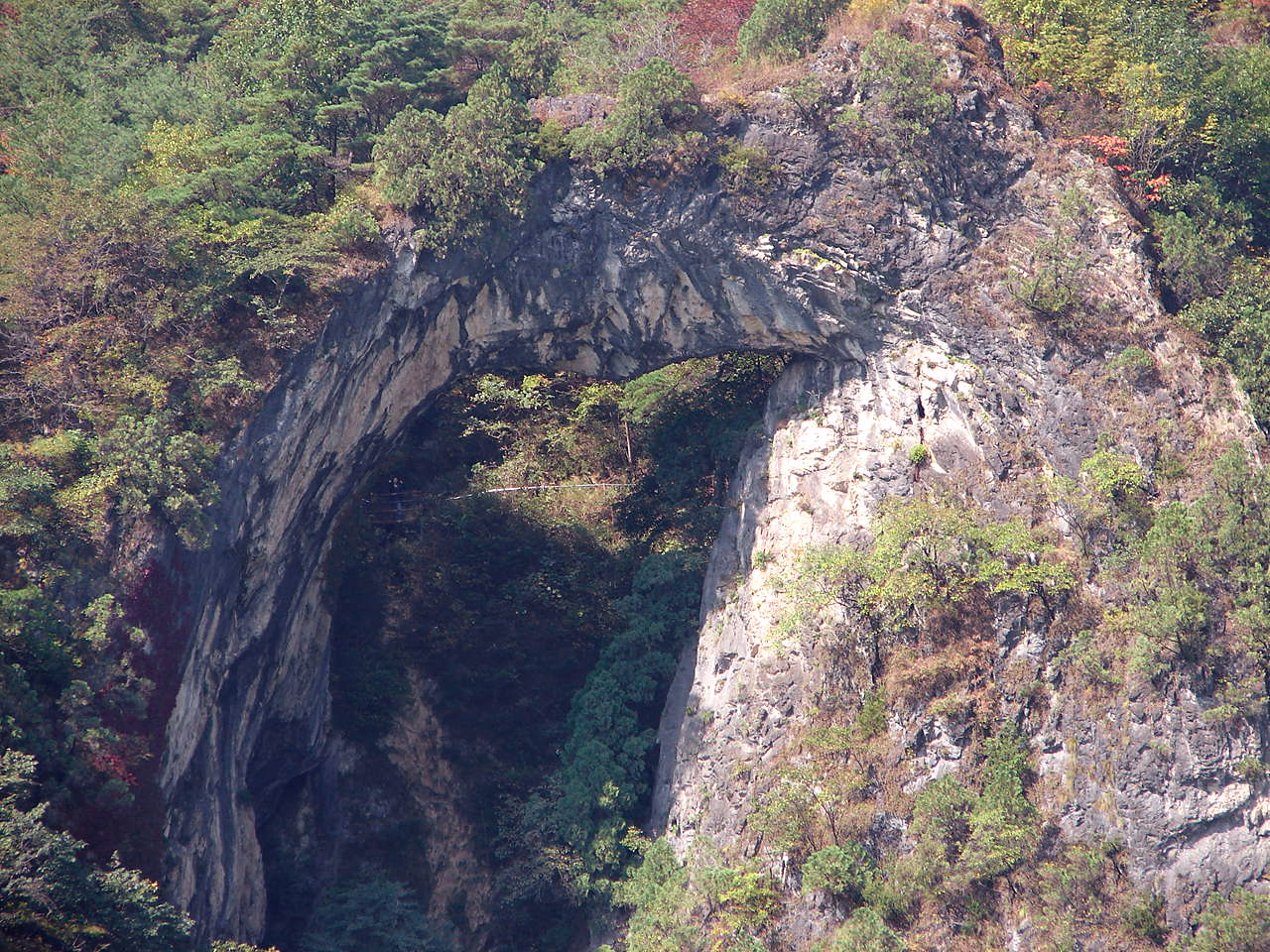 Dosam Sambong Seokmun - A natural stone arch or bridge along the river overlooking Dosam Sambong forming what looks like a "Stone Gate".